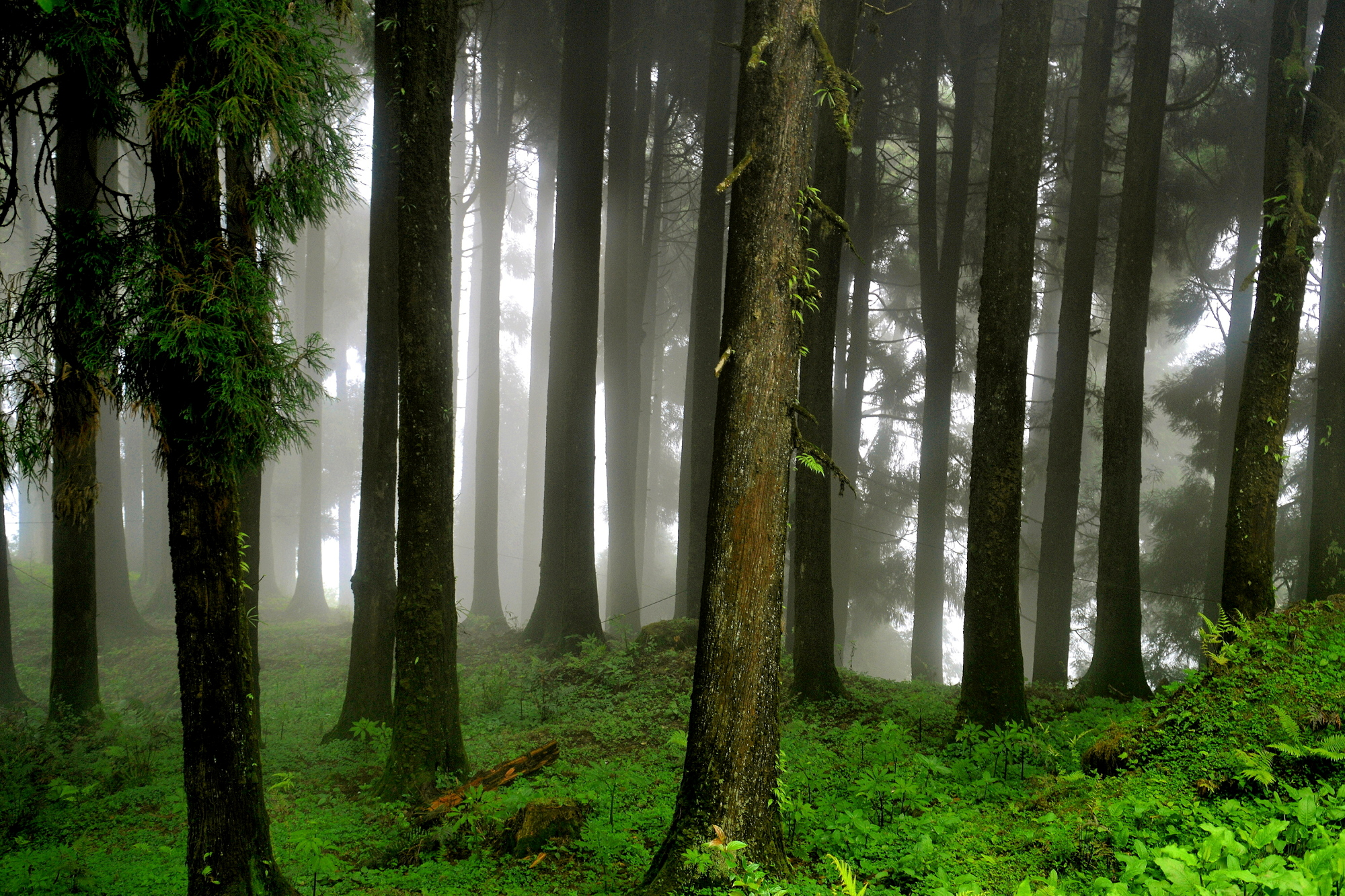 Neora Valley National Park, West Bengal, India